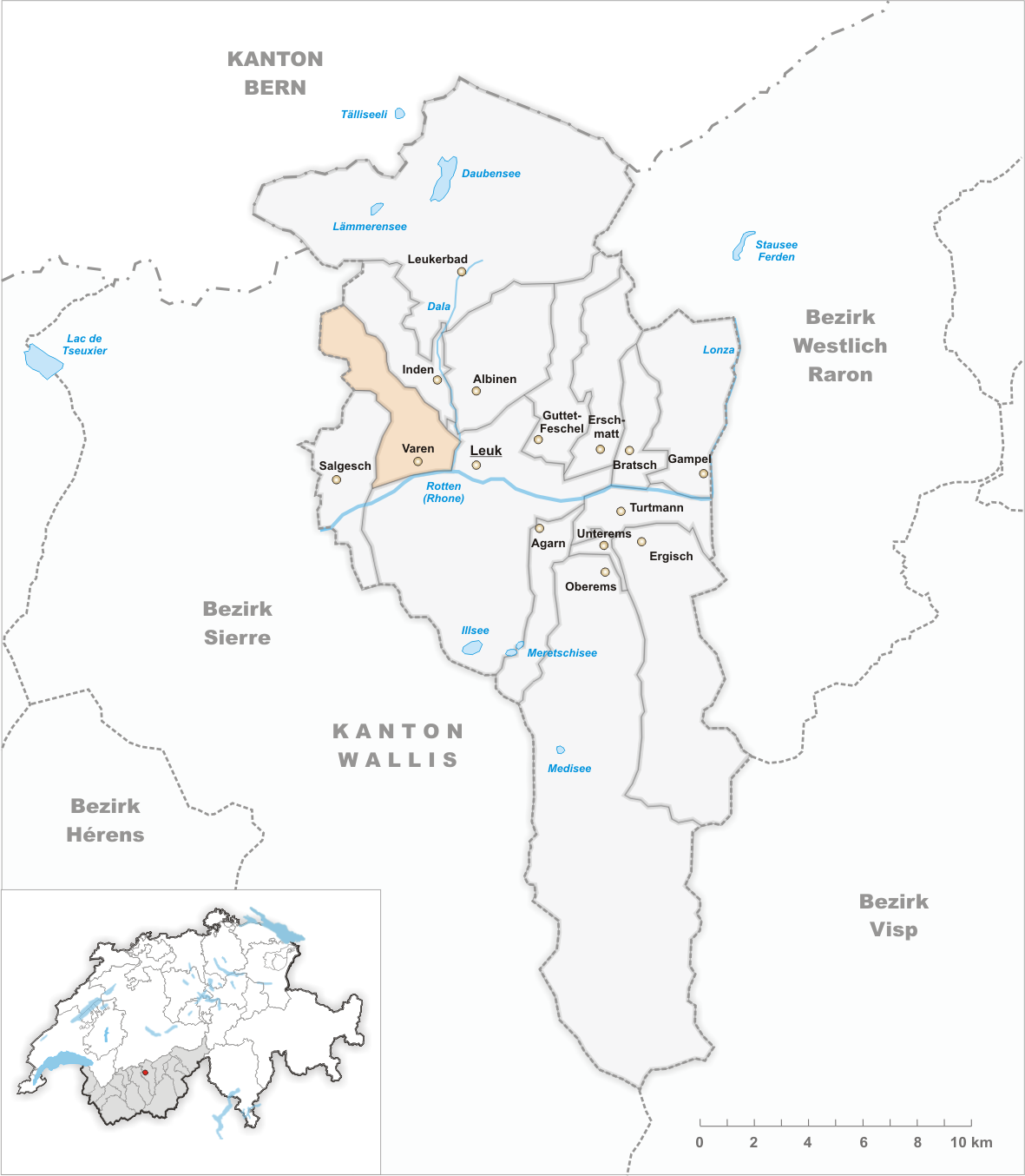 Municipality Varen